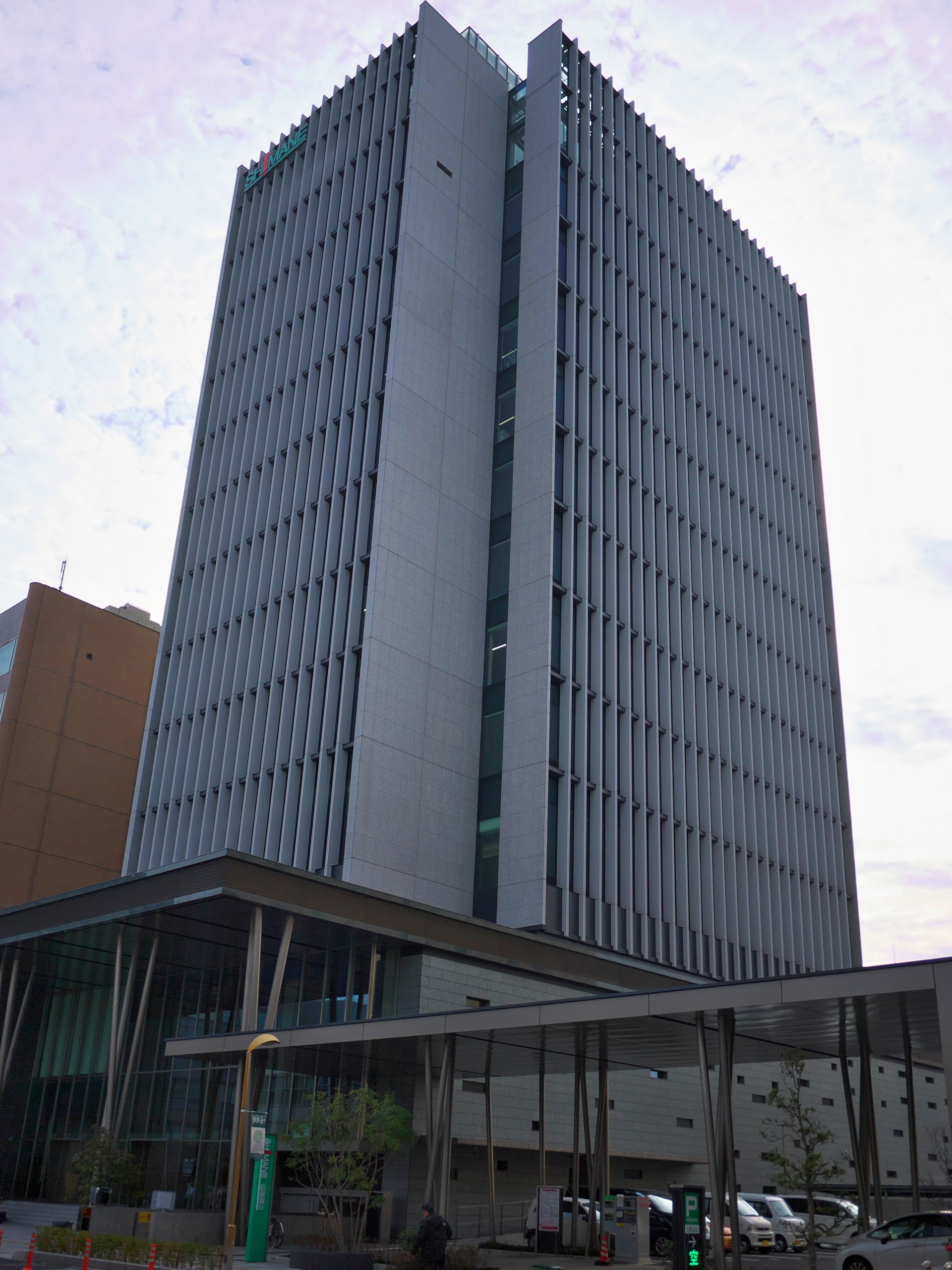 Shimane Bank Headquarters in Asahimachi, Matsue, Shimane prefecture